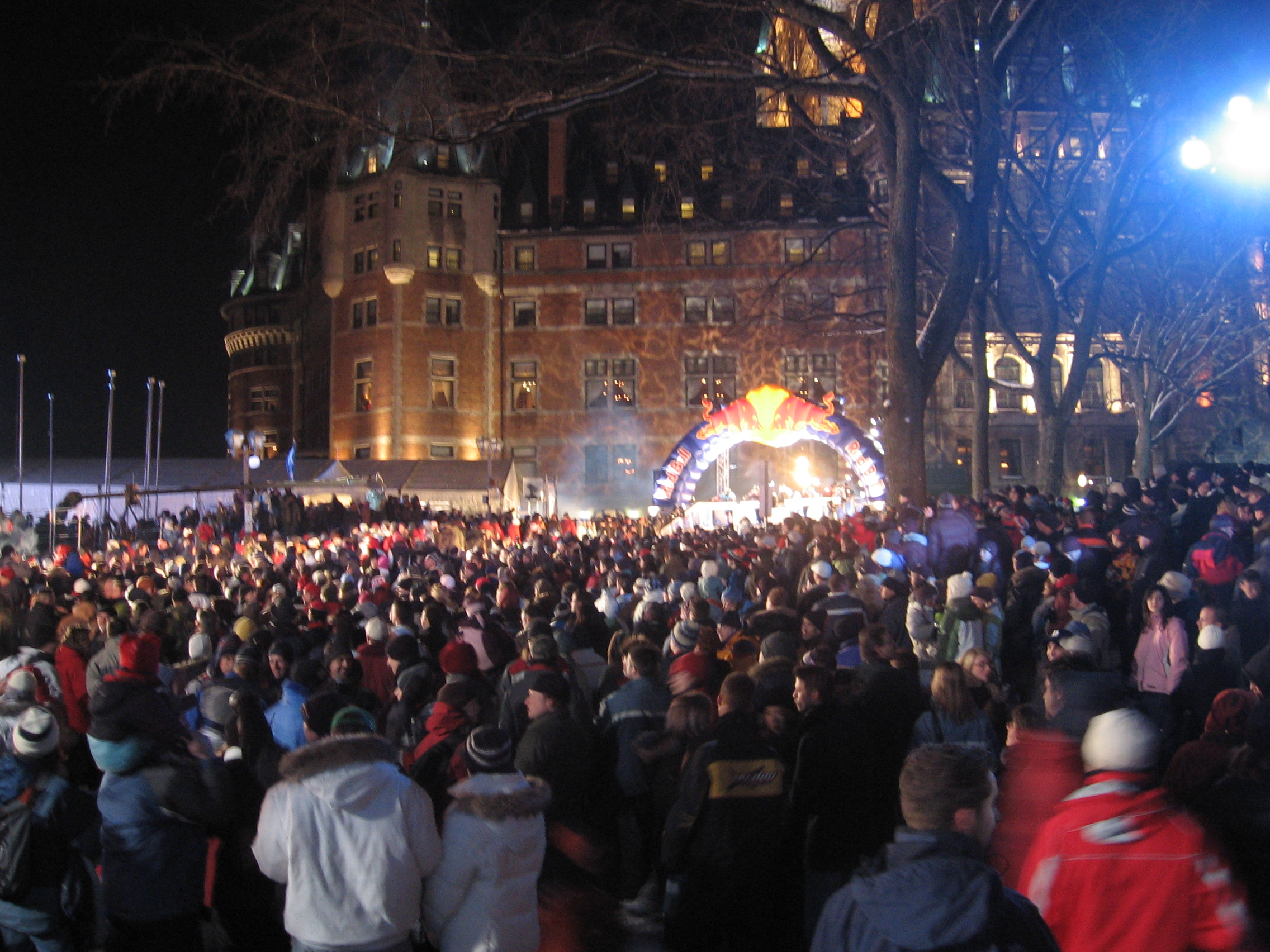 A relly big crowd for the Red Bull Crashed Ice '07 that was held in Quebec City in Canada.